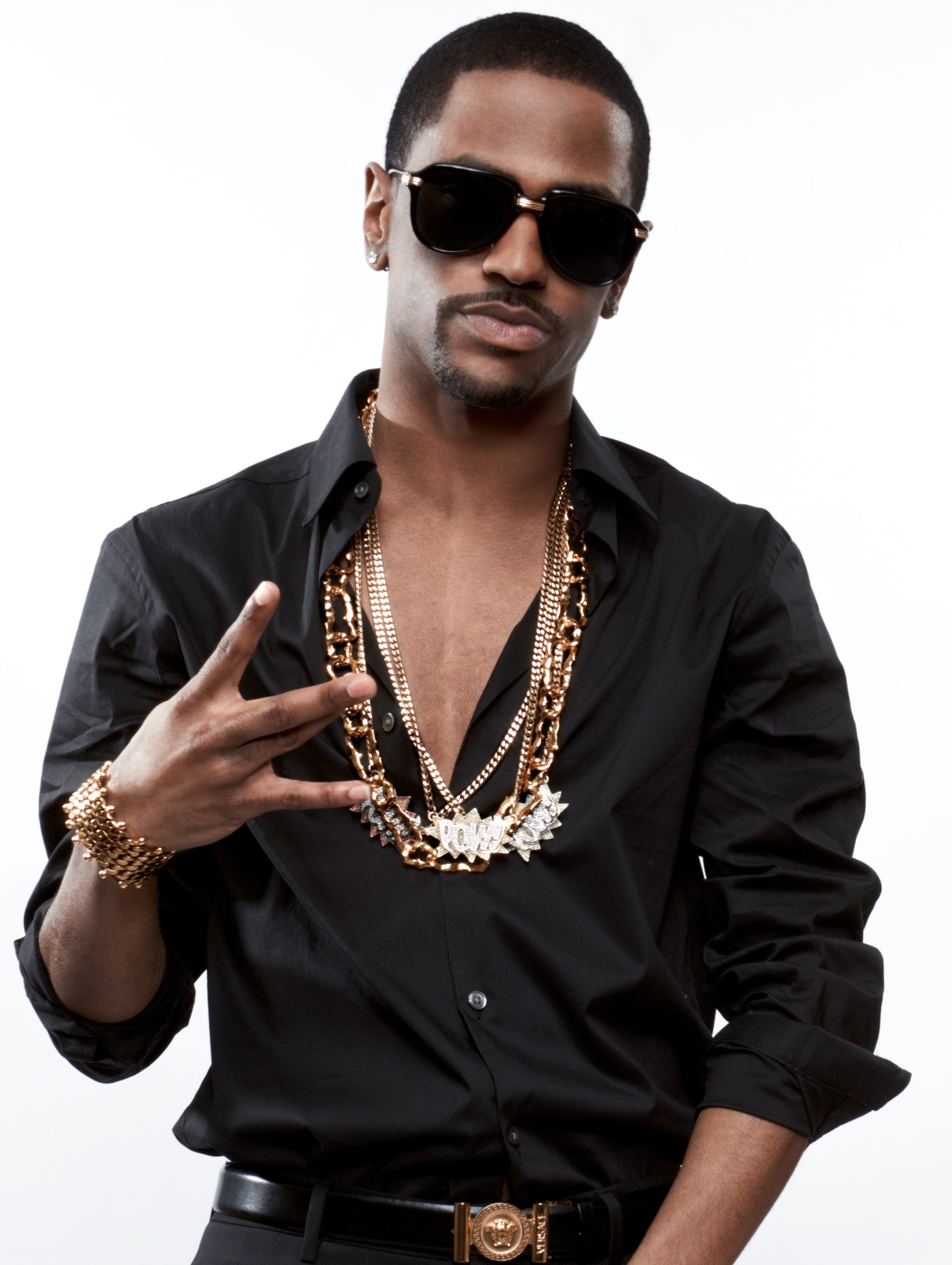 Rapper Big Sean